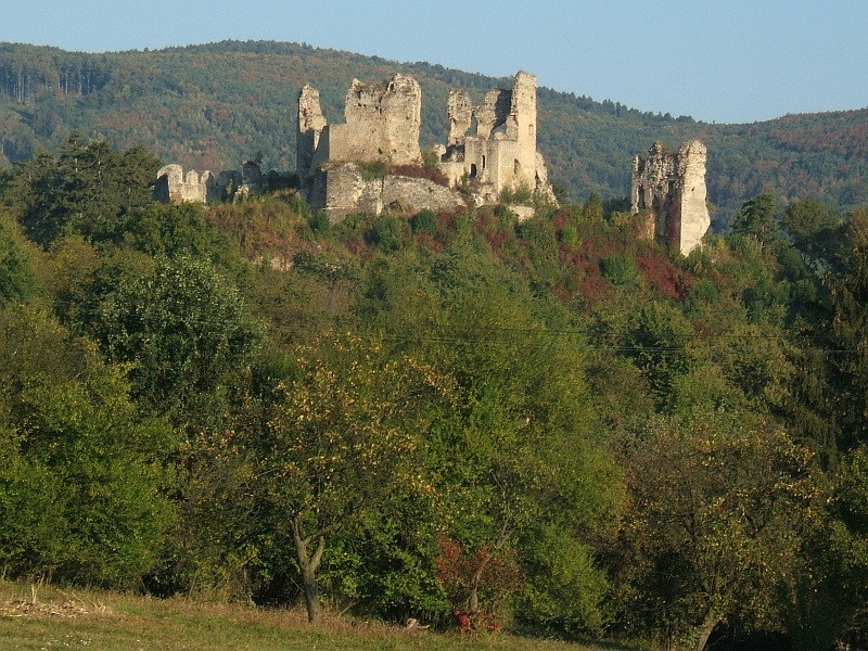 castle from east